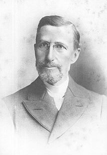 Author photo of Sylvanus Stall from What A Young Husband Ought To Know (1897). Also used in With the Children on Sunday (1911).